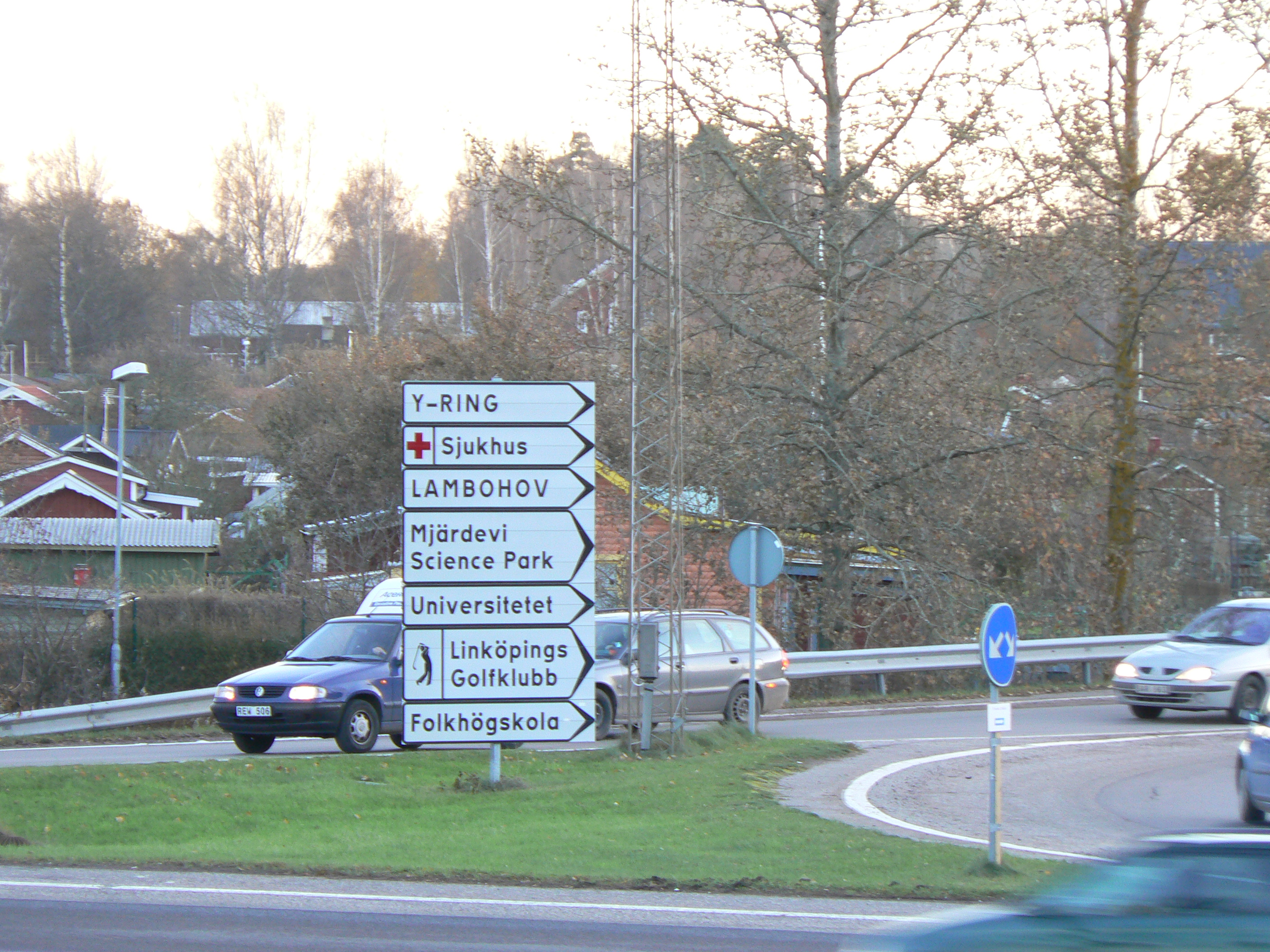 Universitetsvägen's exit from Vallarondellen in Linköping. One of the signs (Y-ring) telling that the road belongs to the city's outer traffic circuit.